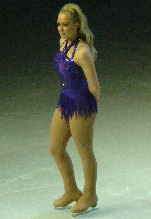 Laura Hamilton during the Dancing on Ice tour in Manchester M.E.N Arena, 1.30pm Sunday 1st May 2011.